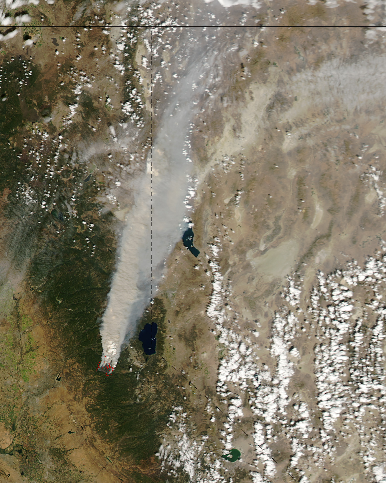 On September 17, 2014, the Moderate Resolution Imaging Spectroradiometer (MODIS) on NASA’s Aqua satellite captured this image of the King fire burning in Eldorado National Forest. Red outlines indicate hot spots where MODIS detected unusually warm surface temperatures associated with fire. As of September 18, the fire had charred 70,944 acres (27,710 hectares) and forced 2,819 people to evacuate their homes.